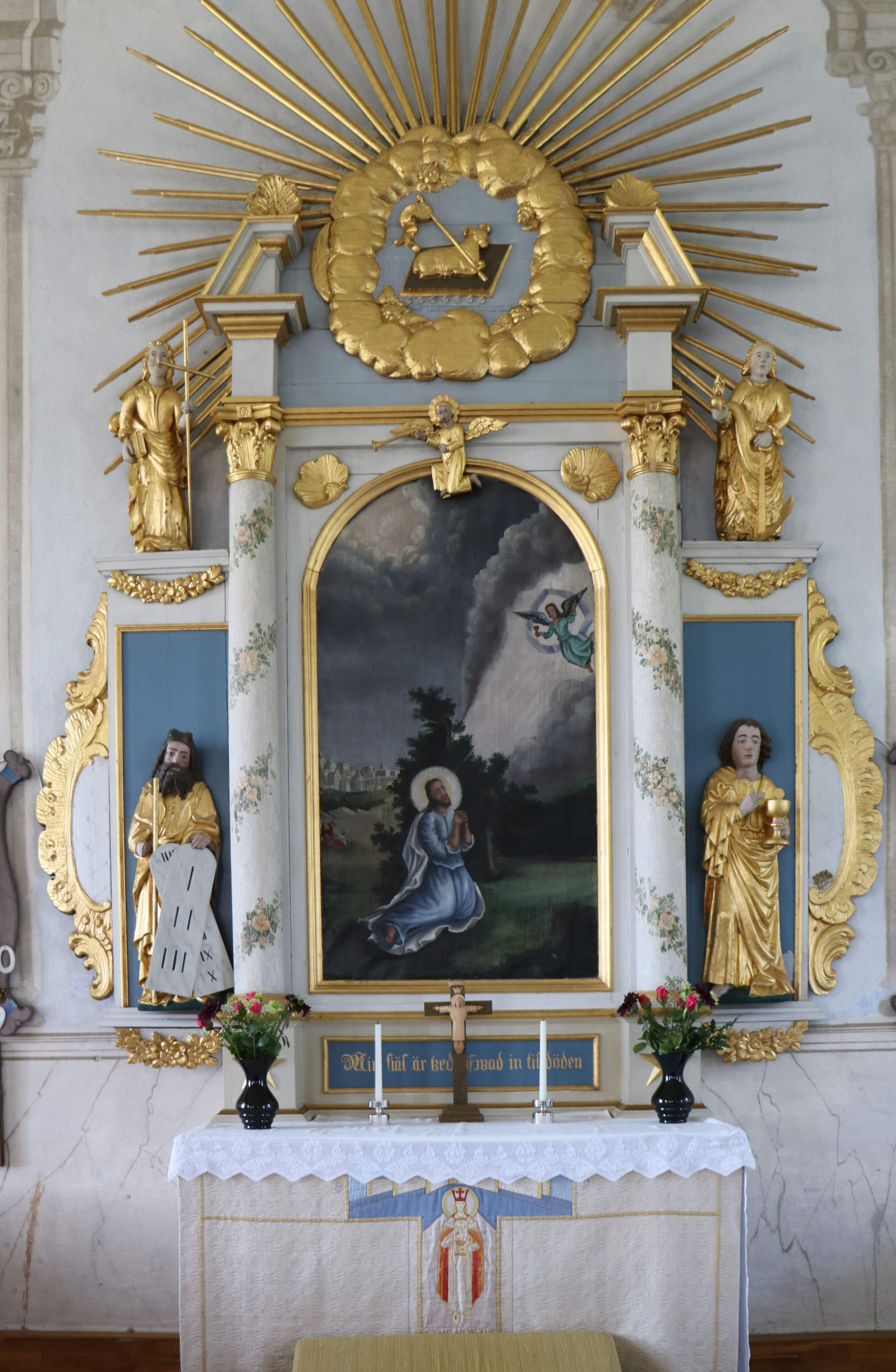 Alböke Church. Reredos performed by Anders G Wadsten 1794.